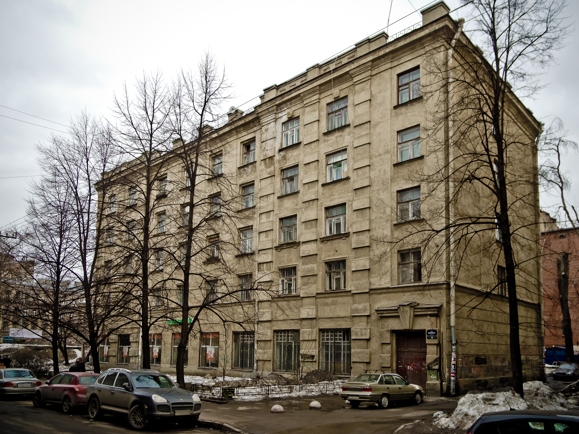 Saint Petersburg, 15, Blokhina street